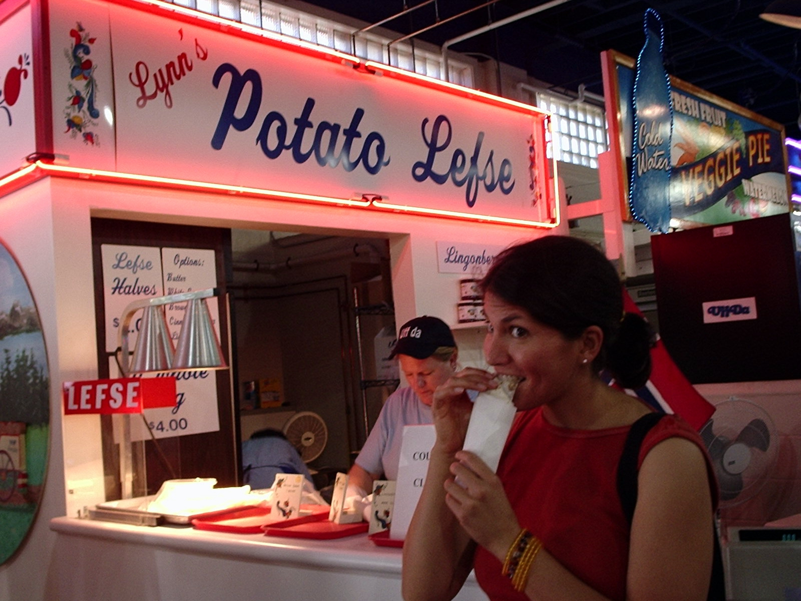 A crepe from a different country with a potato base. Lefse at the Minnesota State Fair